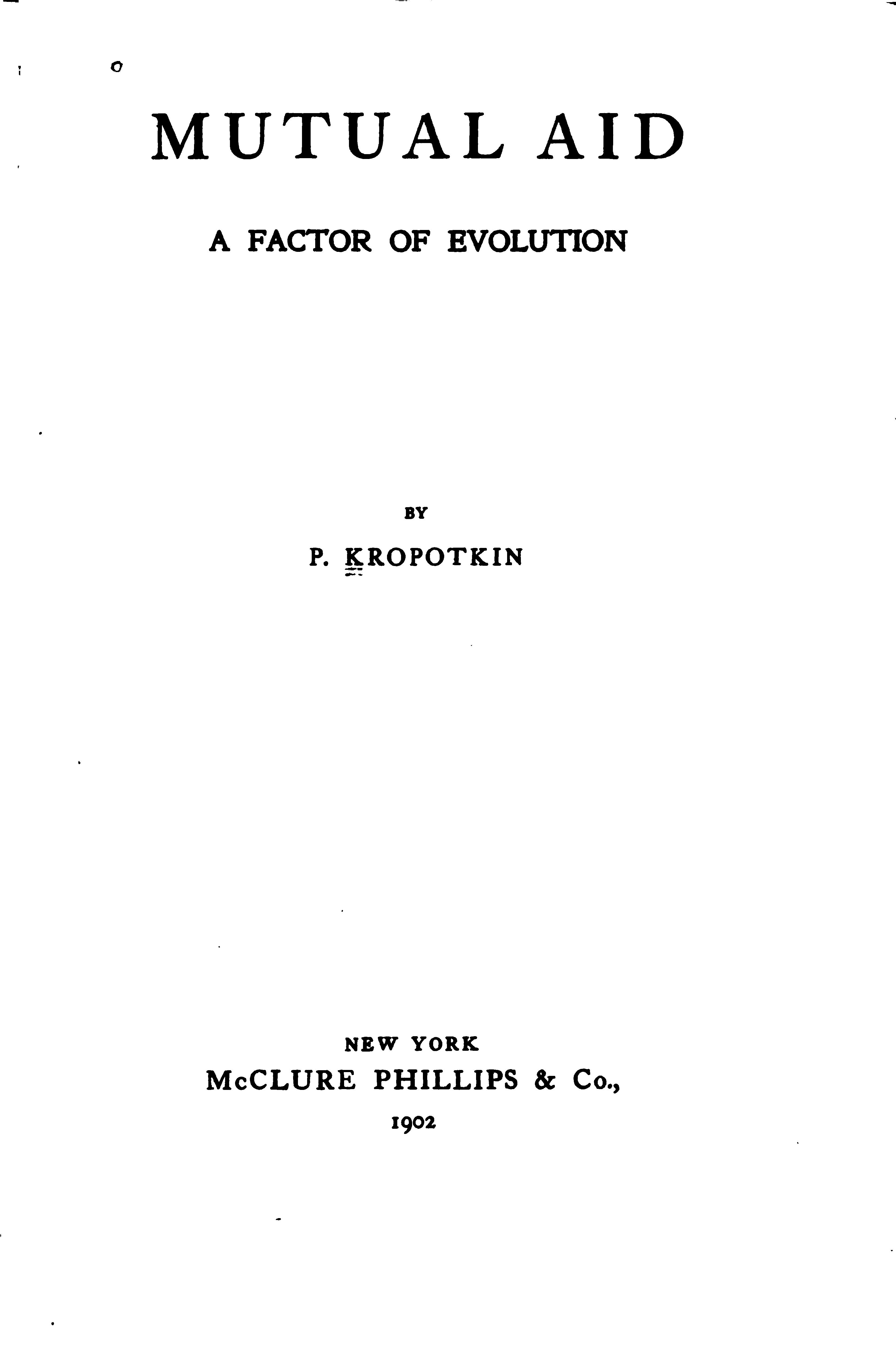 the cover of the first (?) edition of Mutual Aid: A Factor of Evolution